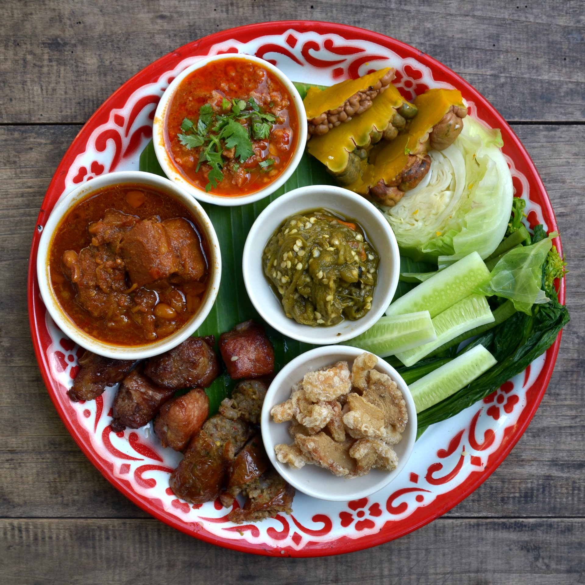 A sampling of Northern Thai (Lanna) cuisine, here served as starters at "Huen Muan Jai" northern Thai restaurant in Chiang Mai. Starting from the top: nam phrik ong (tomato and pork chilli dip), to the left is kaeng hangle (northern Thai pork curry), in the middle is nam phrik num (mashed grilled green chillies, shallots and garlic), below is a small bowl of kaep mu (deep-fried pork rinds), with slices of sai ua (grilled spicy pork sausage) and si khrong mu thot (deep-fried pieces of pork ribs) left of it. The vegetables, excepting the cucumber, are all steamed.